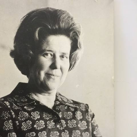 Photograph of the Finnish textile artist Uhra-Beata Simberg-Ehrström (1914–1979).